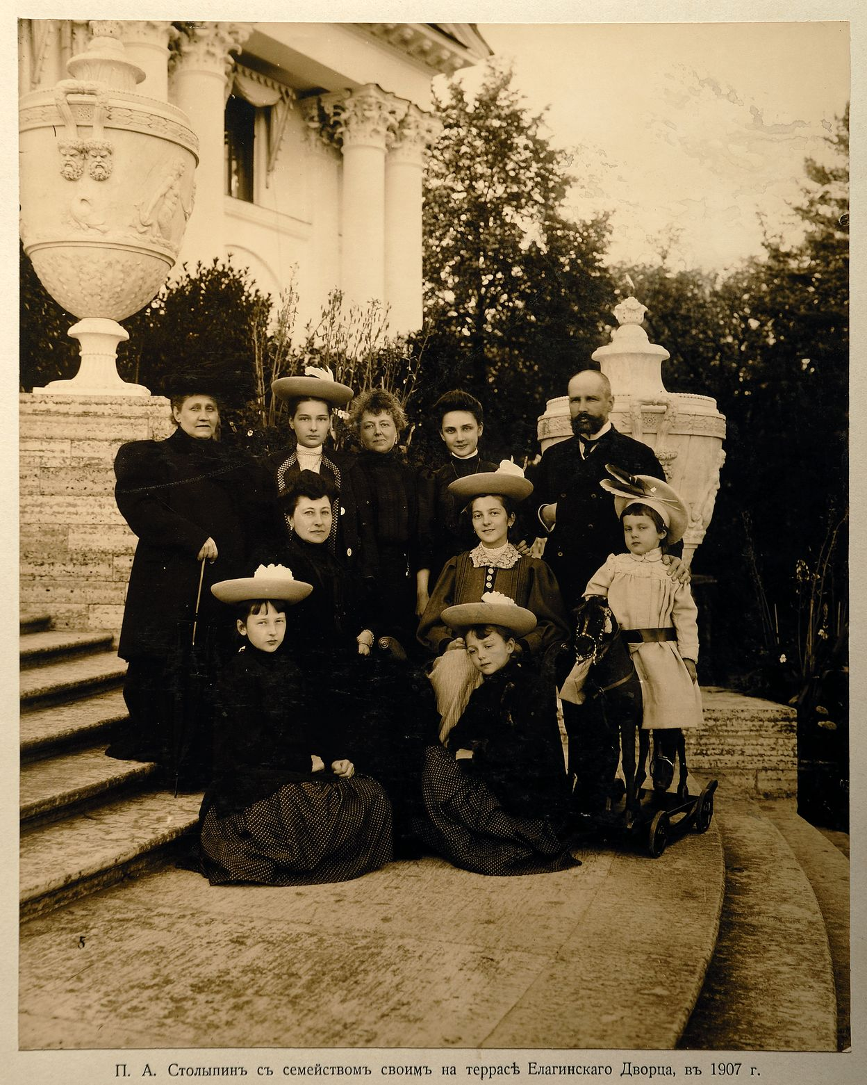 The Chairman of the Council of Ministers of Russia P.A.Stolypin with his family at the Yelagin Palace (St. Petersburg). 1907.